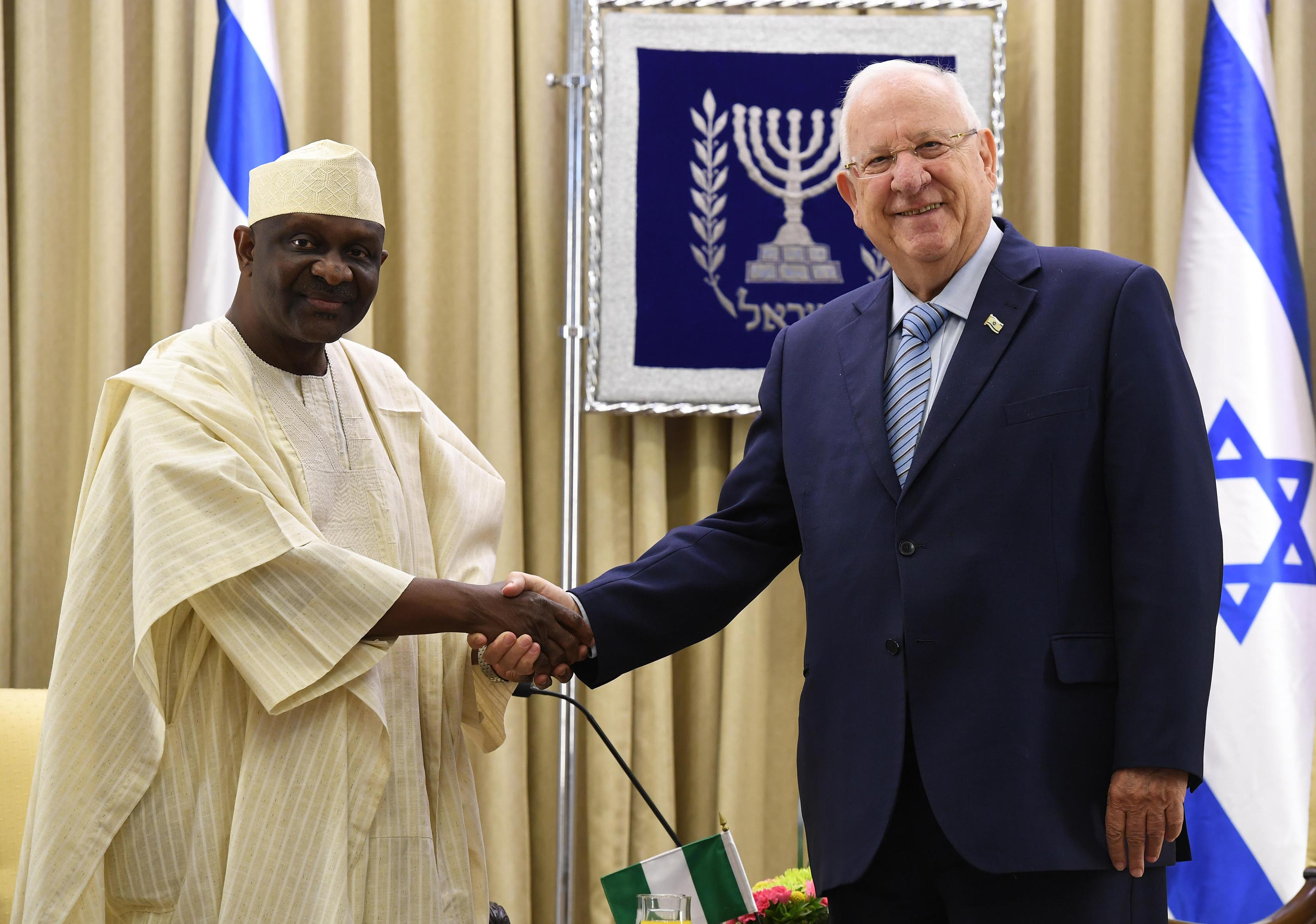 Reuven Rivlin receives the credential of the new ambassador from Nigeria The President of the State of Israel, Reuven Rivlin, receives the credentials of the new ambassadors from Italy, Denmark, the European Union and Nigeria - upon their entry as ambassadors of their respective countries in Israel and afterwards met with the Romanian Foreign Minister who visited Israel. Monday, Tuesday, October 23, 2017.